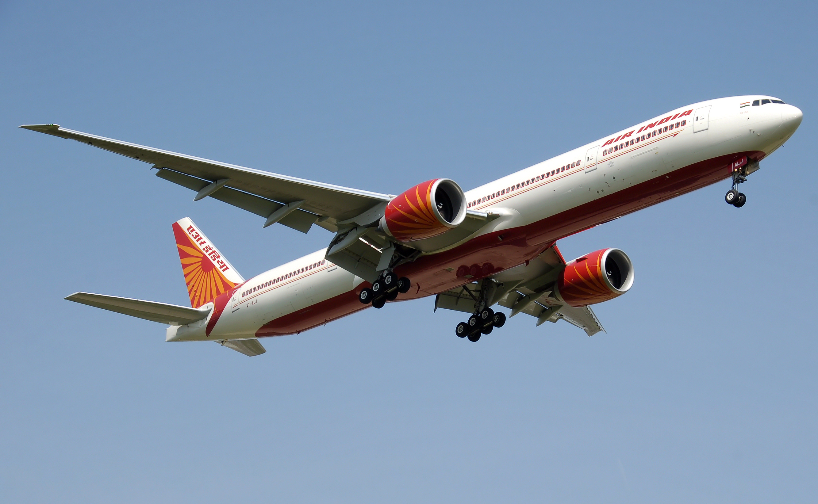 Air India Boeing 777-300ER (VT-ALJ) takes off from London Heathrow Airport, England.